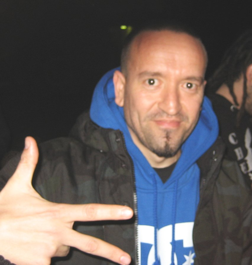 MC Randy is a spanish male MC.